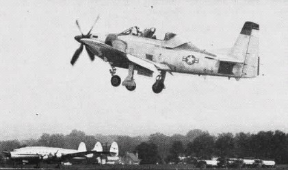 The tuboprop-powered North American AT-28E Trojan prototype, ca. 1964.